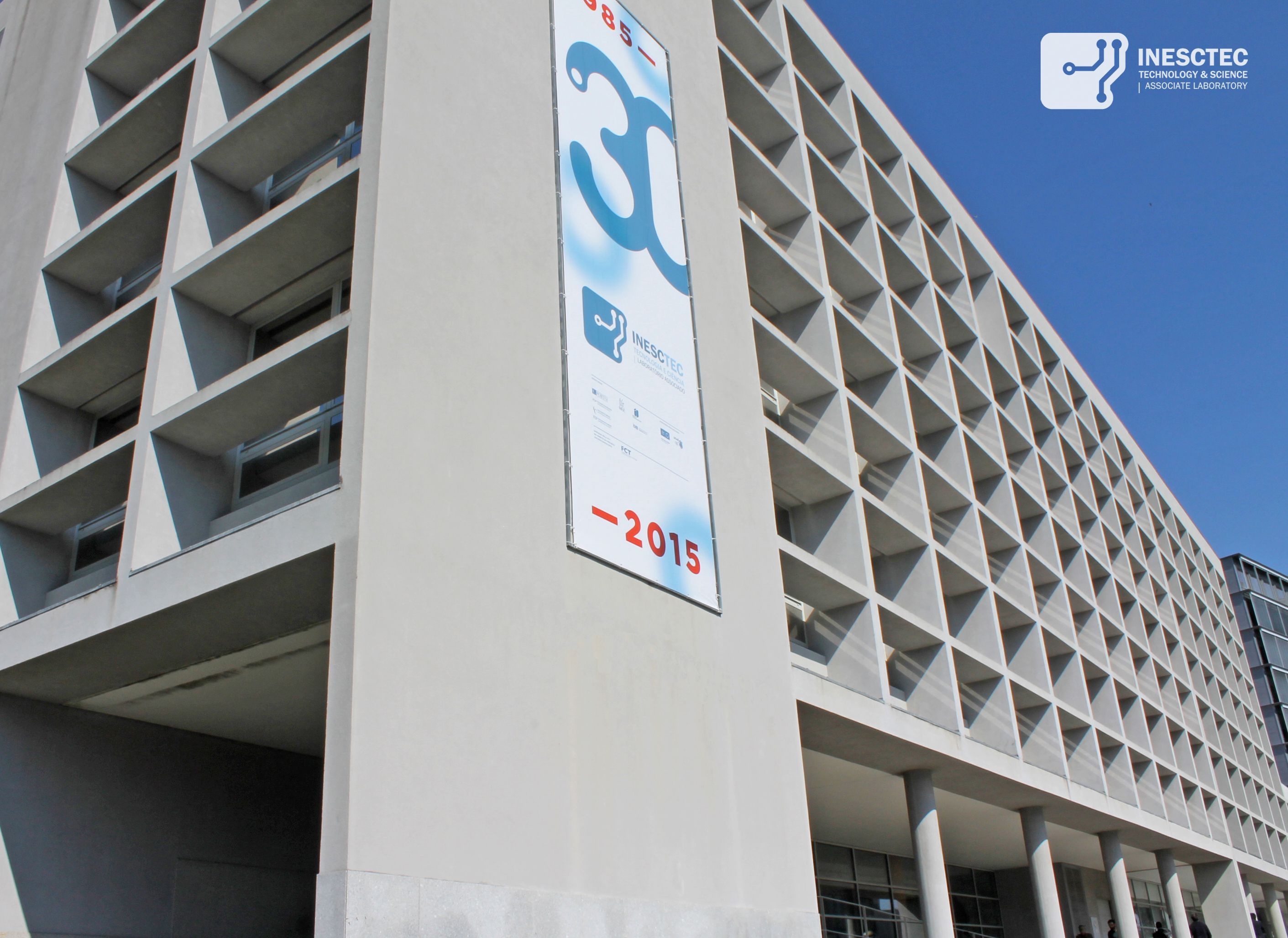 INESC TEC - building